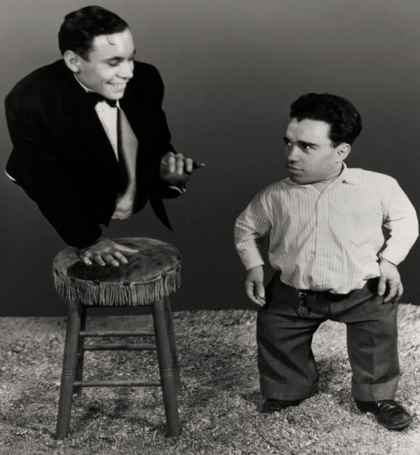 Johnny Eck (left) & Angelo Rossitto in Freaks - publicity still (cropped : see source)